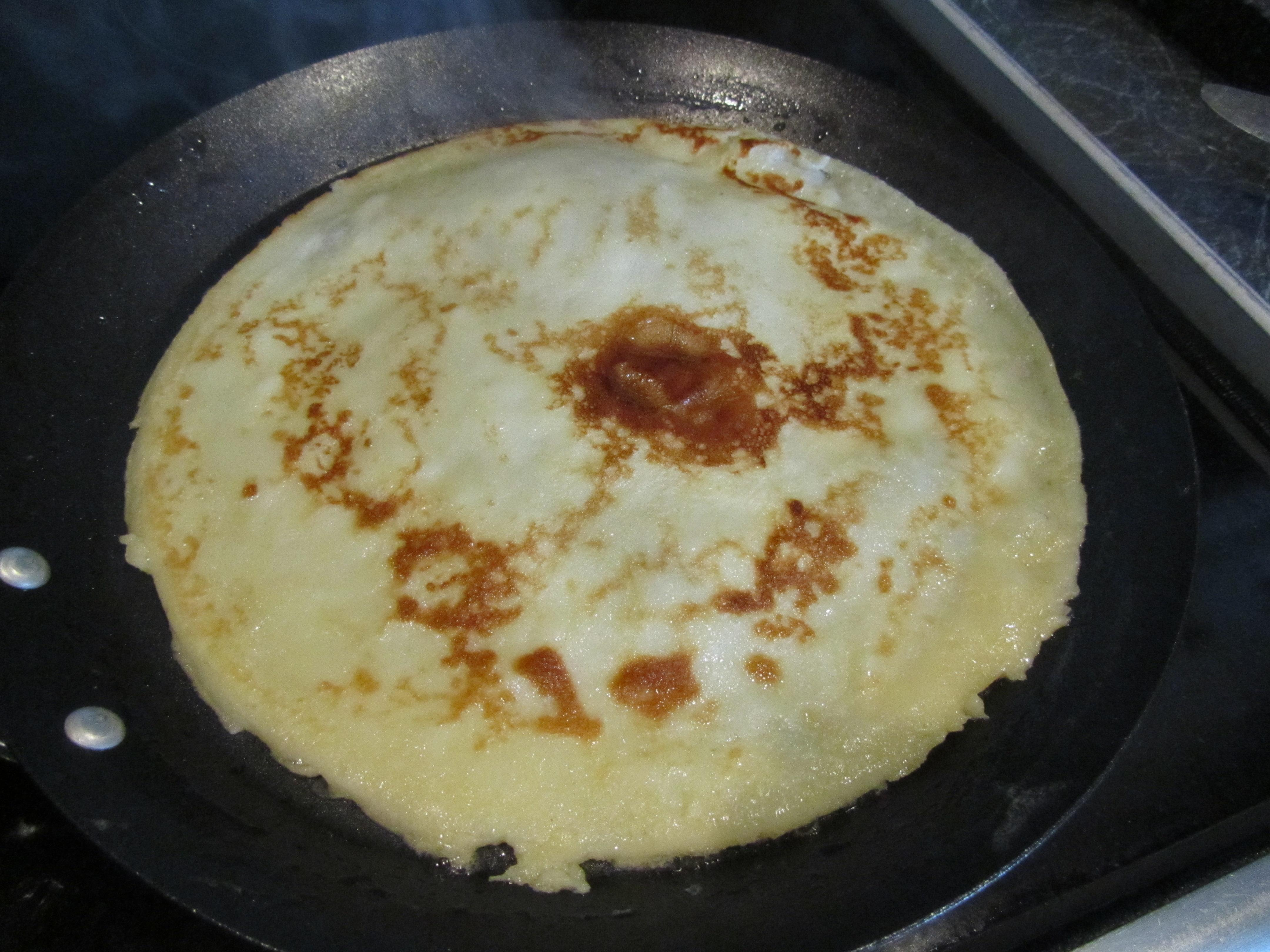 Little Pancake